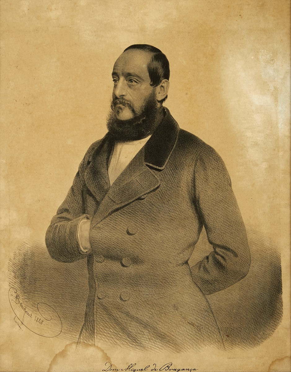 Michael of Bragança, deposed king of Portugal.